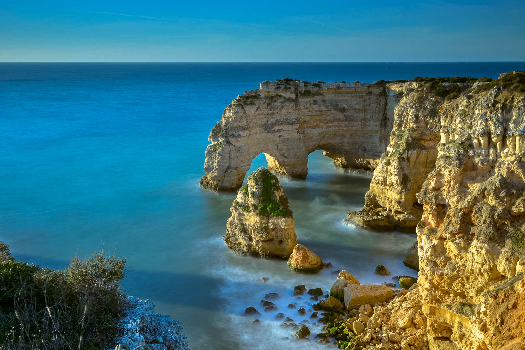 Marinha beach - Algarve